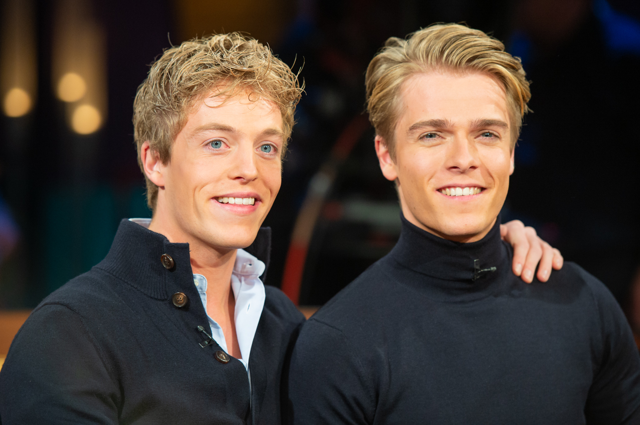 Arthur Jussen,Live on tape,Lucas Jussen,NDR Talk Show